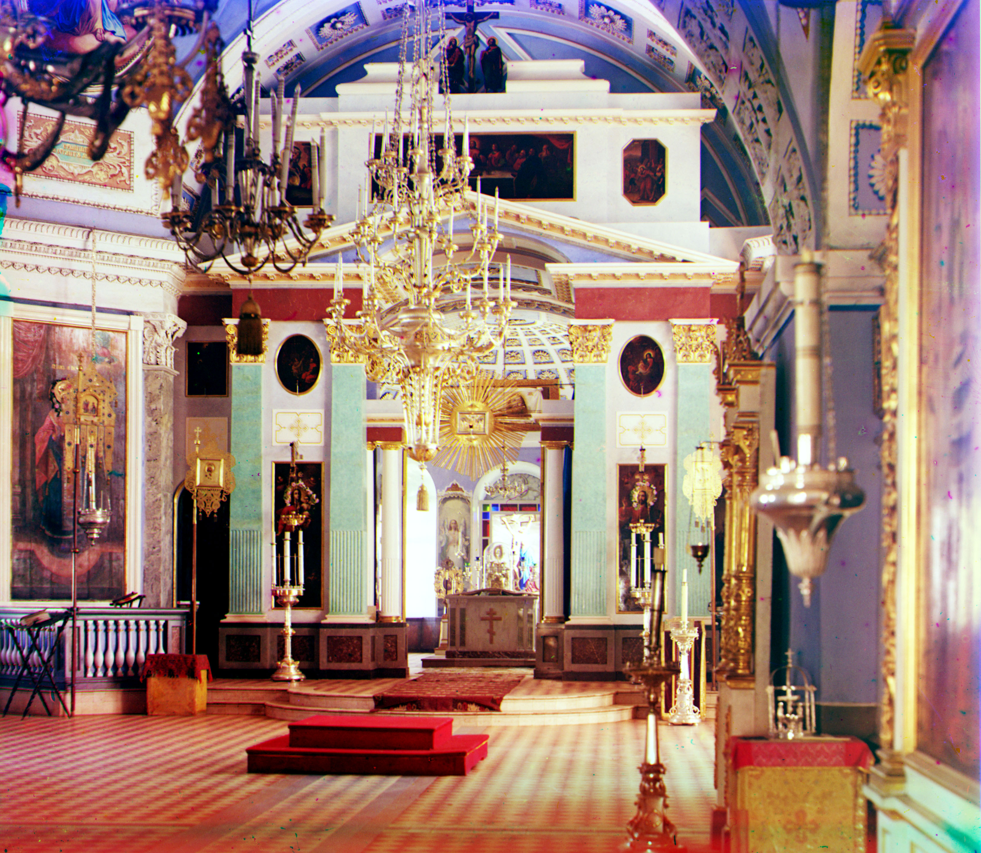 The Sheremetev chapel in the St Jacob Monastery, Rostov the Great.